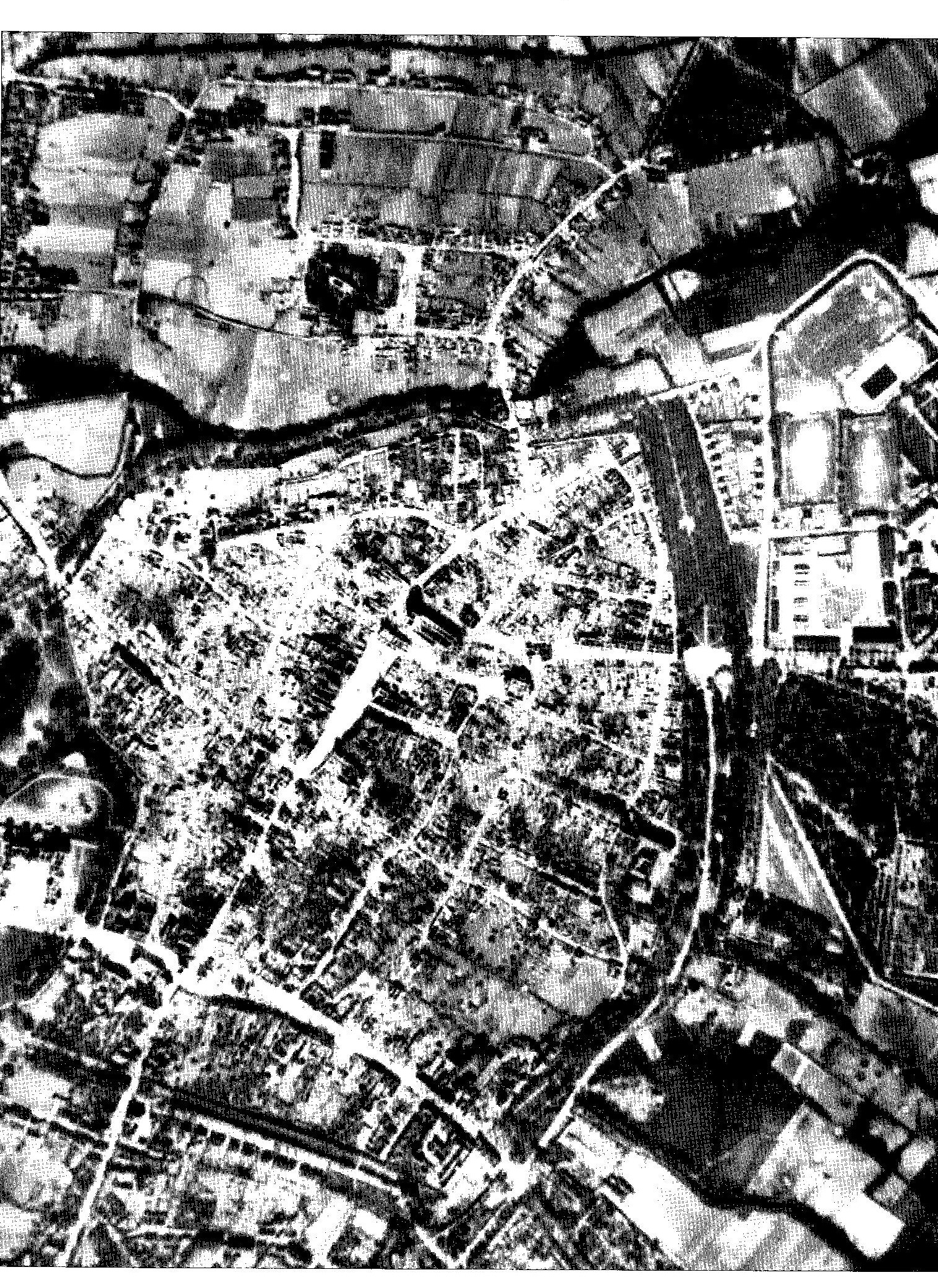 Zerbst after Air Raid in 1945